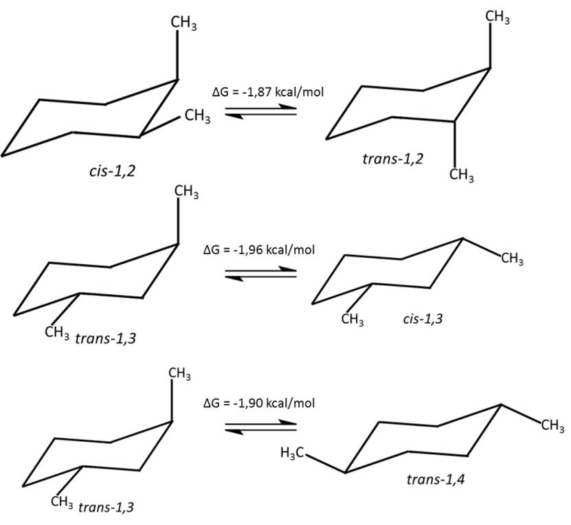 Figura i. Ciclohexanos 1,2; 1,3 e 1,4-dissubstituídos